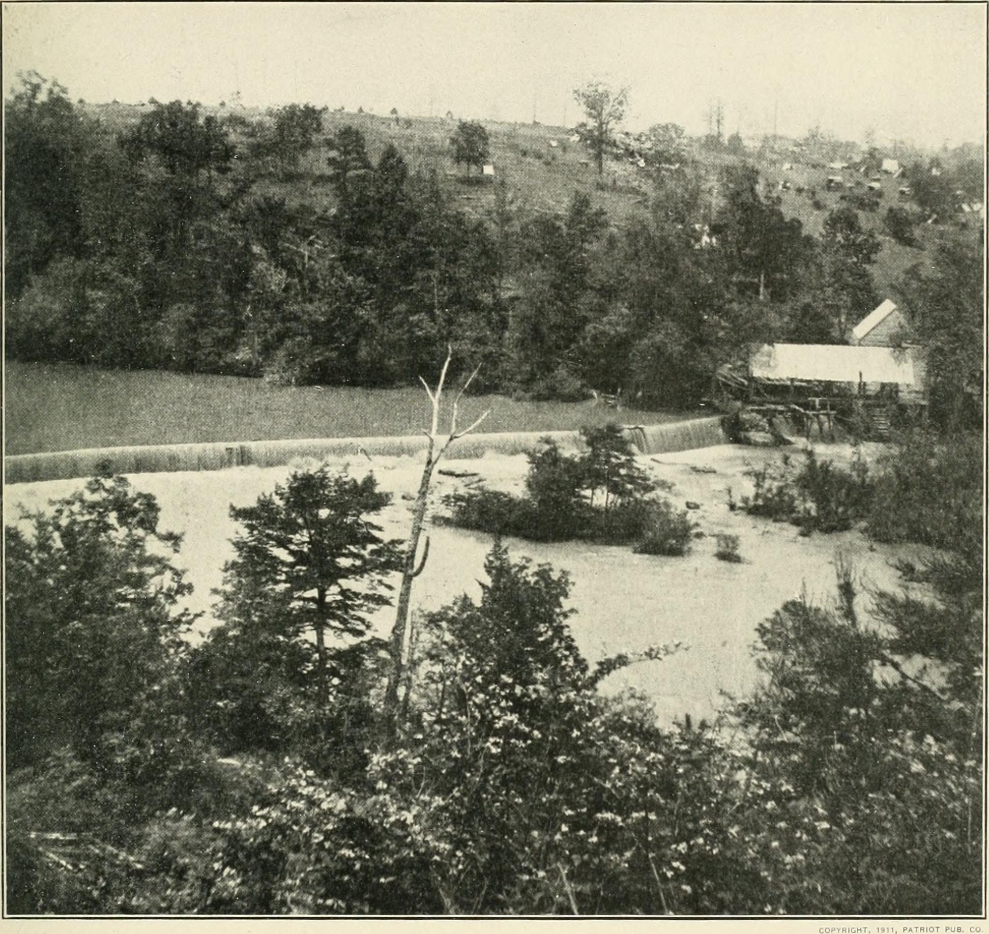 Title: The photographic history of the Civil War : thousands of scenes photographed 1861-65, with text by many special authorities Year: 1911 (1910s) Authors: Miller, Francis Trevelyan, 1877-1959 Lanier, Robert S. (Robert Sampson), 1880- Subjects: United States -- History Civil War, 1861-1865 Pictorial works United States -- History Civil War, 1861-1865 Publisher: New York : Review of Reviews Co. Text Appearing Before Image: ' Text Appearing After Image: WHERE GRANT FOUND OUT HIS MISTAKE At those white tents above Quarles Mill dam sits Grant, at his General Headquarters on the 24tli ofMay, and he has found out too late that Lee has led him into a trap. The Army of Northern Virginiahad beaten him in the race for the Nortli Anna, and it was found strongly entrenched on the south side oftlie stream. The corps of Warren and Wright had crossed at Jericho Mills a mile above Quarles Mill, andHancocks crossing had been effected so easily at the wooden bridge just below Quarles Mill. Grant hadreenforced both wings of his army before he discovered that it was divided. Lees lines stretched south-ward in the form of a V, with the apex resting close to the ri\er. The great strategist had folded back hisflanks to let in Grants forces on either side. This and the following pictures form a unique series of illus-trations in panorama of the futile crossing of the North Anna by the Federals.